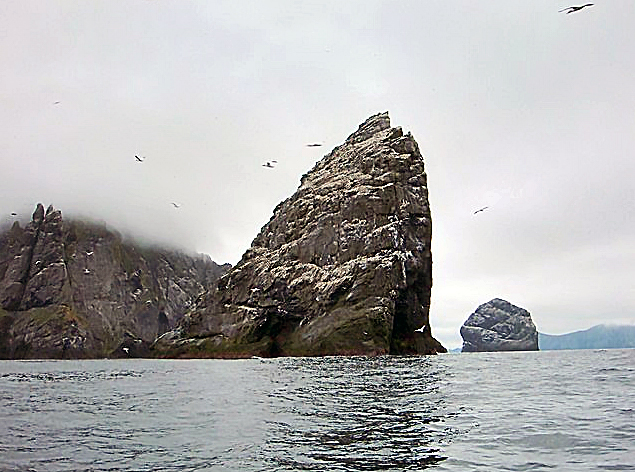 Stac an Armin with Boreray behind, Stac Lee in the middle ground and Hiorta (St Kilda) in the distance ....and loads of gannets!